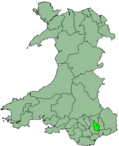 Wales- Islwyn District 1974